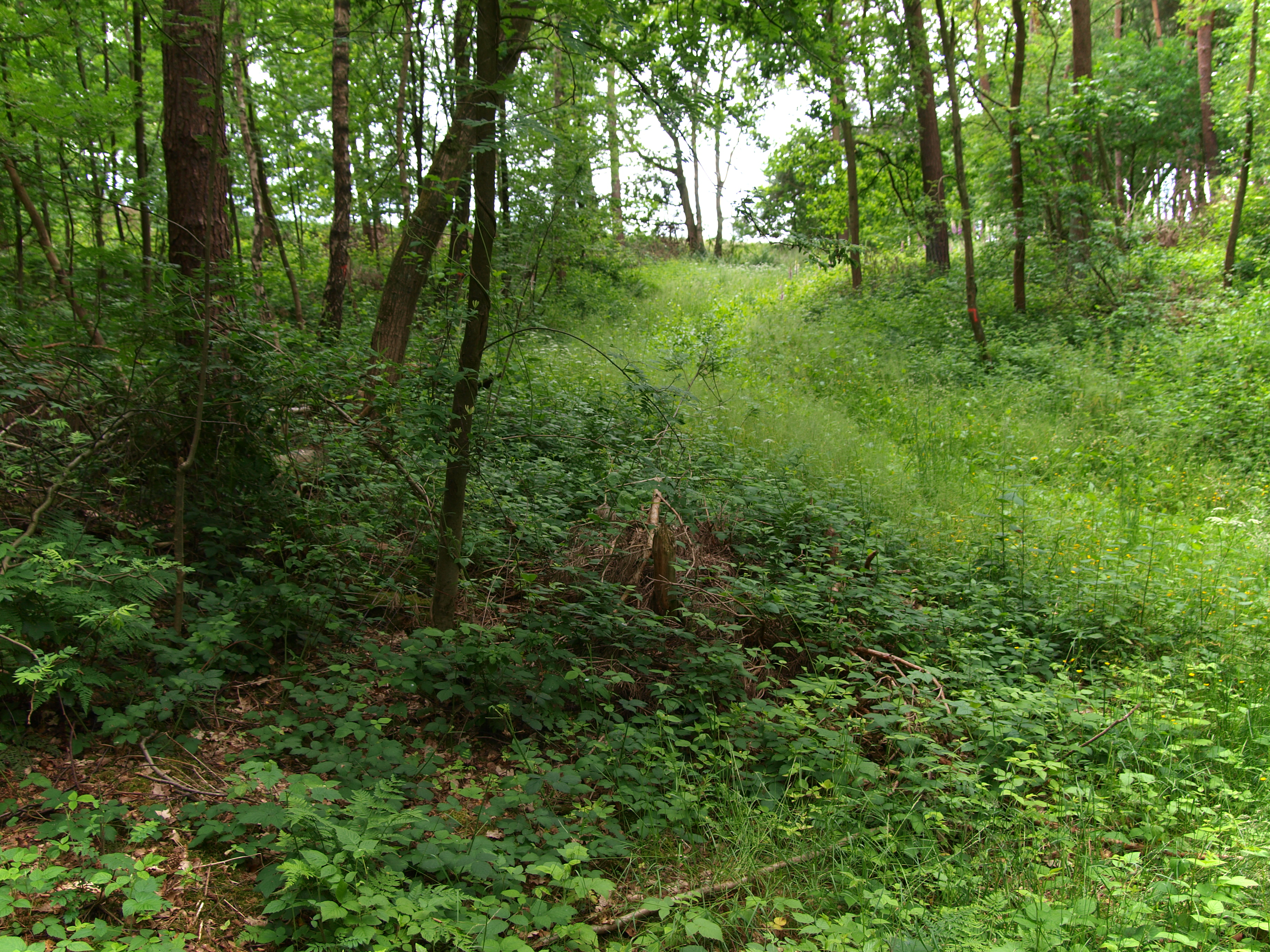 The former loam pit of the muncipality Ovelgönne, Buxtehude, Landkreis Stade, Lower Saxony, Germany. The pre roman Iron Aged Ovelgönne bread roll has been found in this pit, dating to 800-500 B.C.